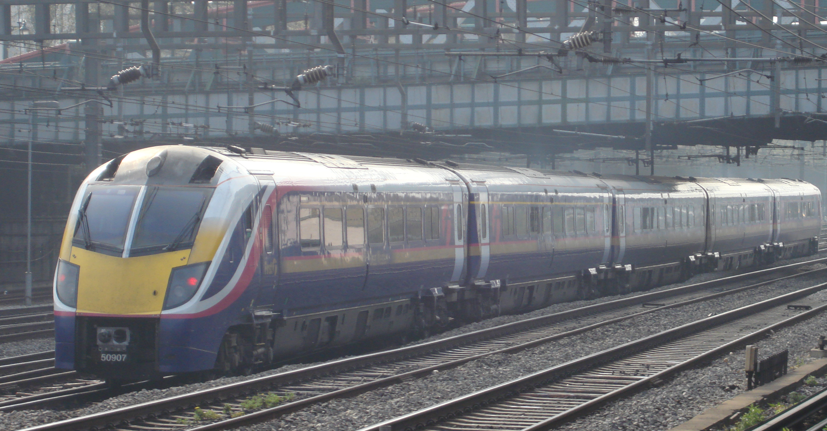 British Rail Class 180 Adelante 180107 passing Royal Oak